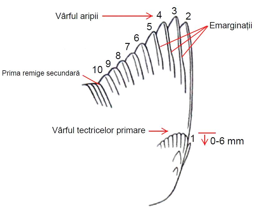 Wing formula of Wood warbler (Phylloscopus sibilatrix)